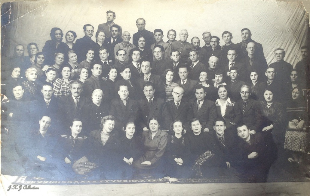 Photograph of the staff of the Azerbaijan State Theatre of Young Spectators (1954).